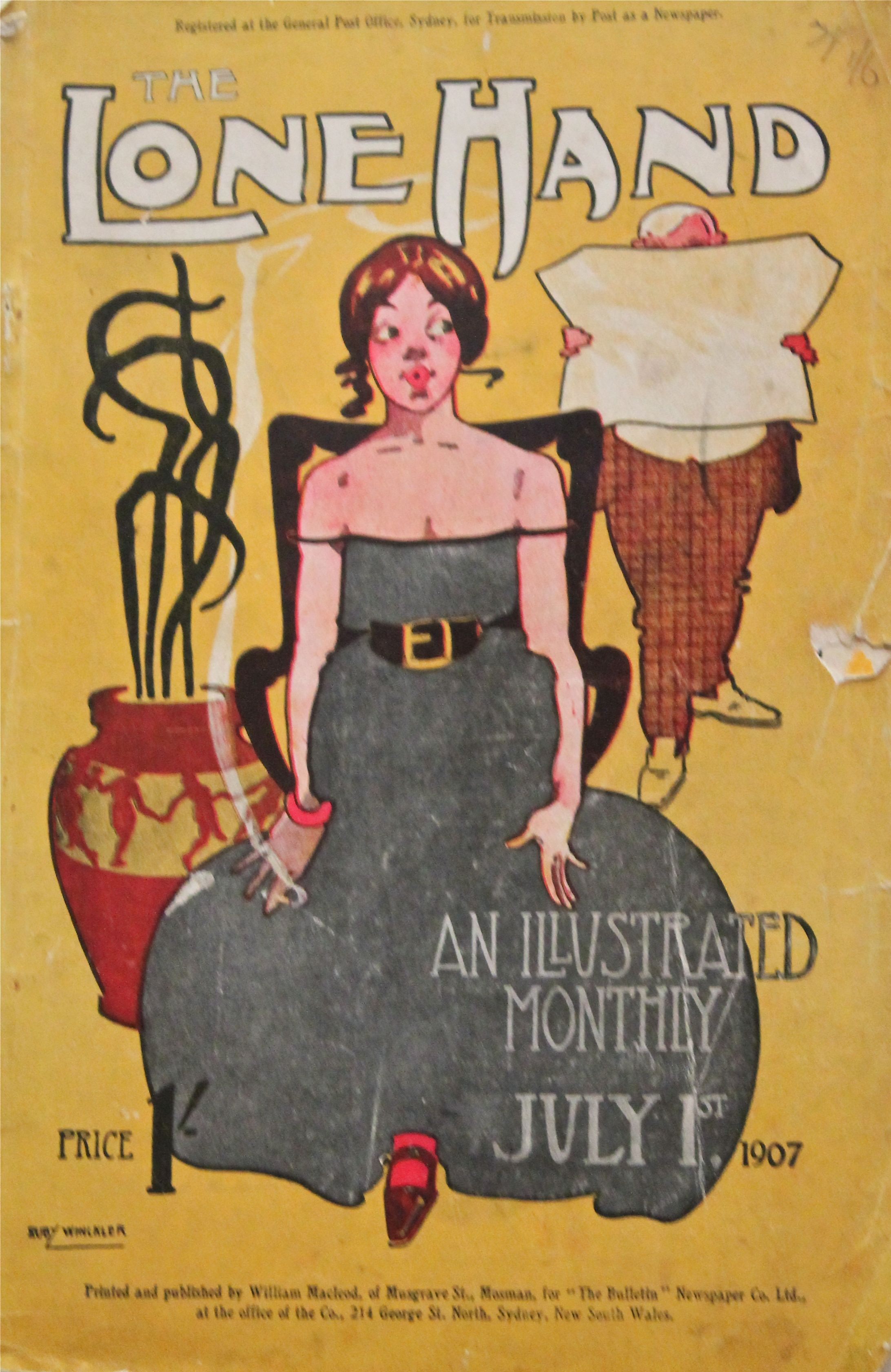 The Cover page of: The Lone Hand 'An Illustrated Monthly' July 1st 1907 - published for the Bulletin, Sydney, New South Wales